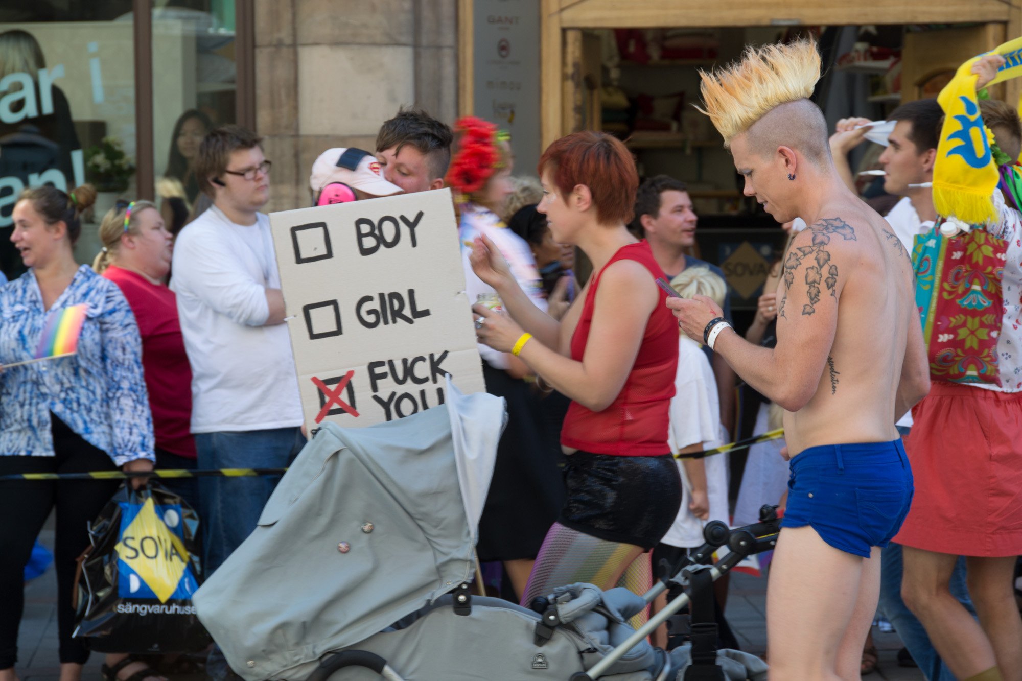 Not a boy, not a girl